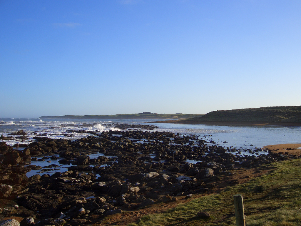 The rocks at Waipapa Point, Southland, New Zealand.